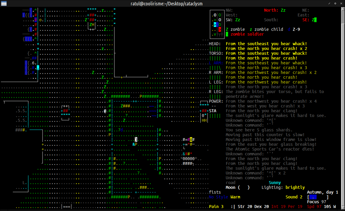 Screenshot from game Cataclysm: Dark Days Ahead showing the player '@' being chased by zombies 'Z'